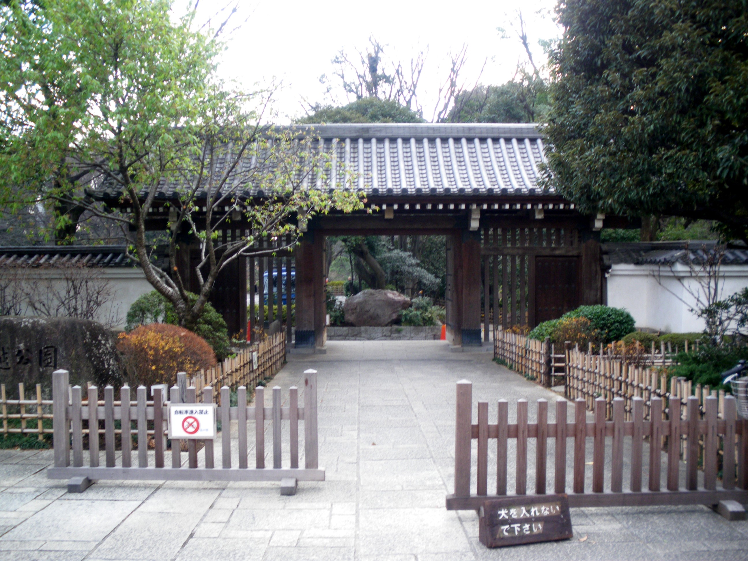 The Yakui Gate (main gate) of Togoshi Park, in Yutakacho, Shinagawa-ku, Tokyo, Japan